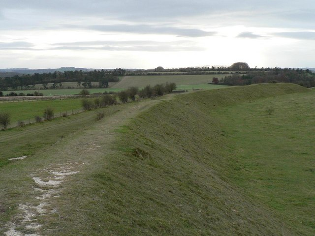 Figsbury Ring: outer ring